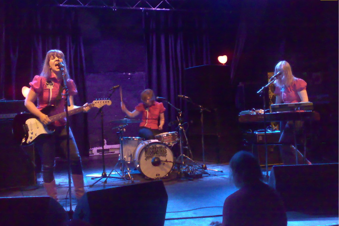 The Micragirls performing at Tavastia Klubi, Helsinki, Finland, on 2008-09-10. (Supporting the Finnish band Sweatmaster.)